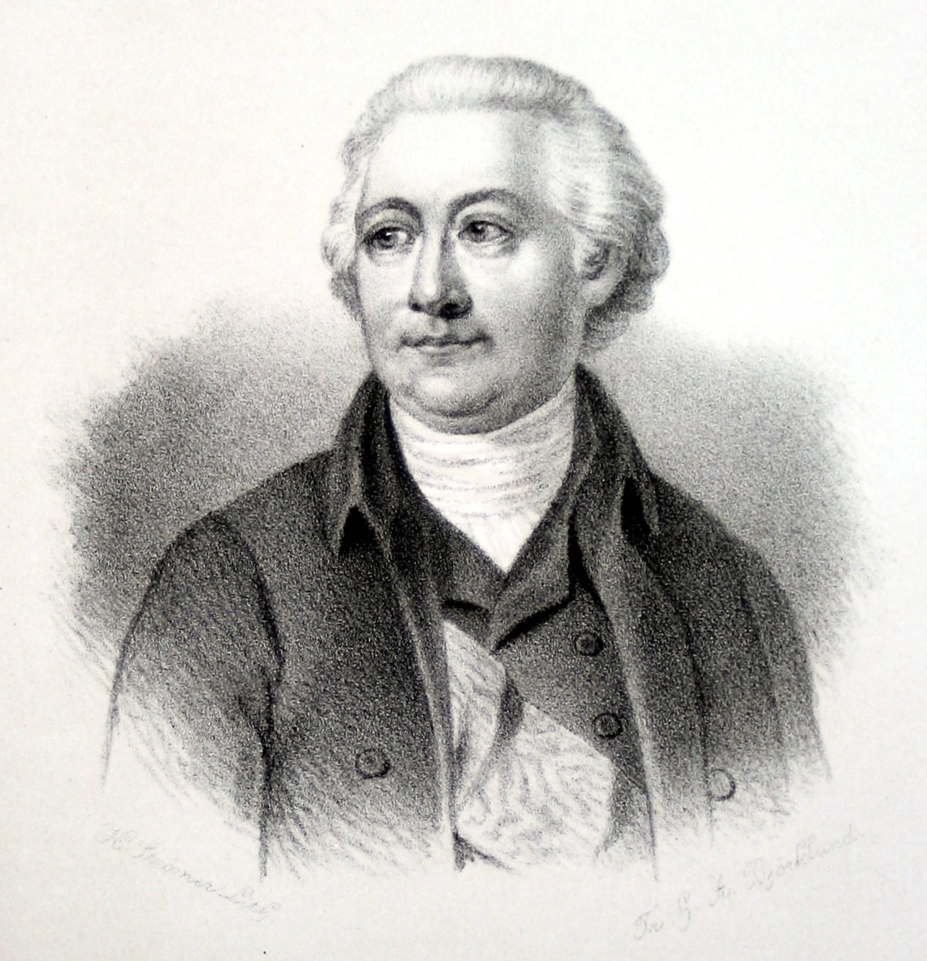 Portrait of William Chalmers from the book "Svenska industriens män" (1875)